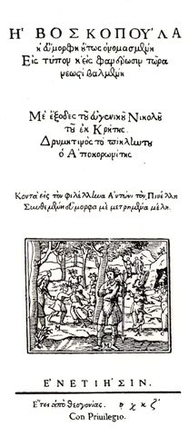 Cover of Voskopoula